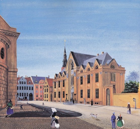 Guache showing Frue Plads in Copenhagen, Denmark in 1860